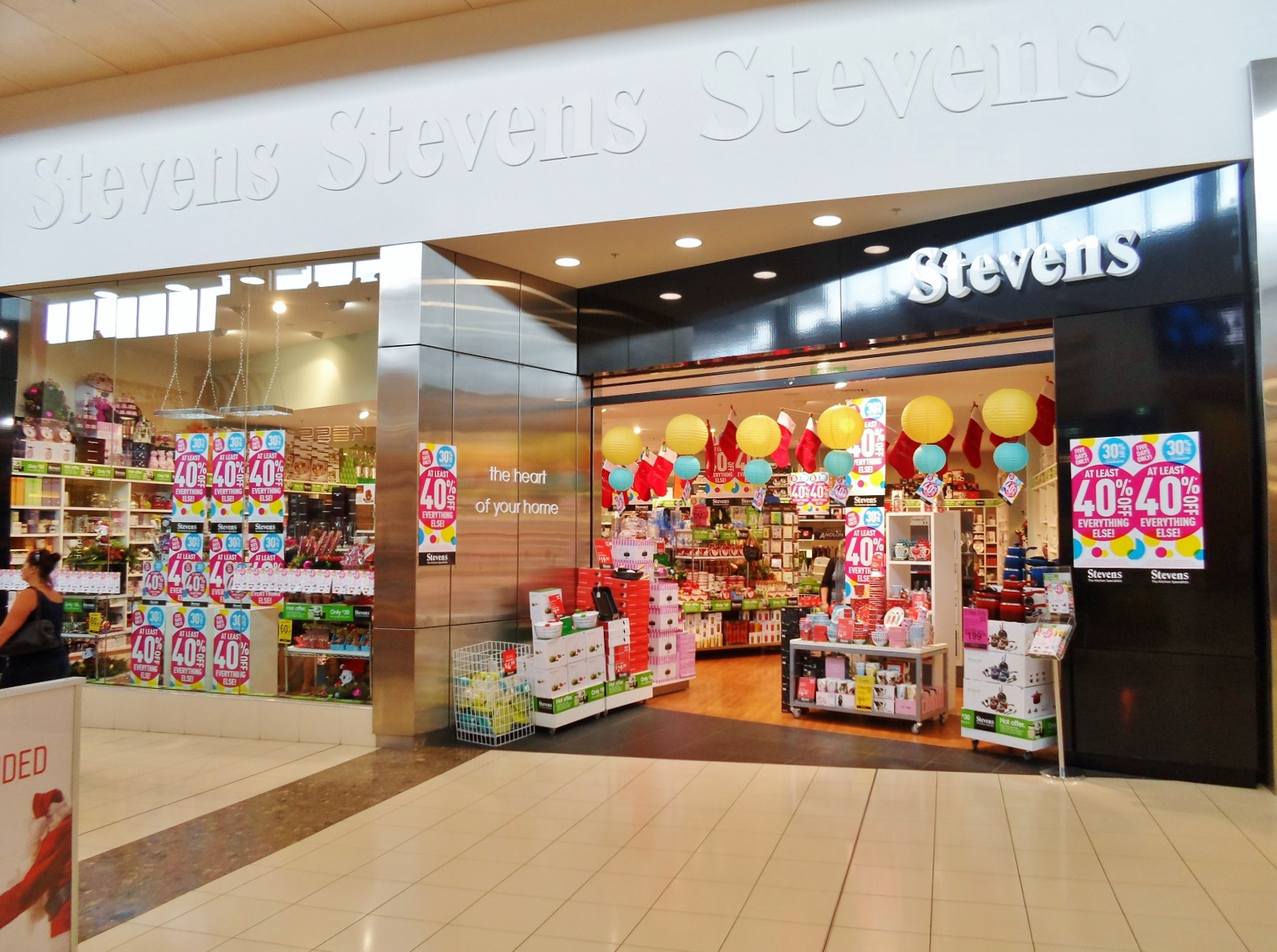 New Zealand kitchenware and tableware retailer Stevens' Albany store at Westfield Albany in Albany on the North Shore of Auckland, New Zealand in 2013.